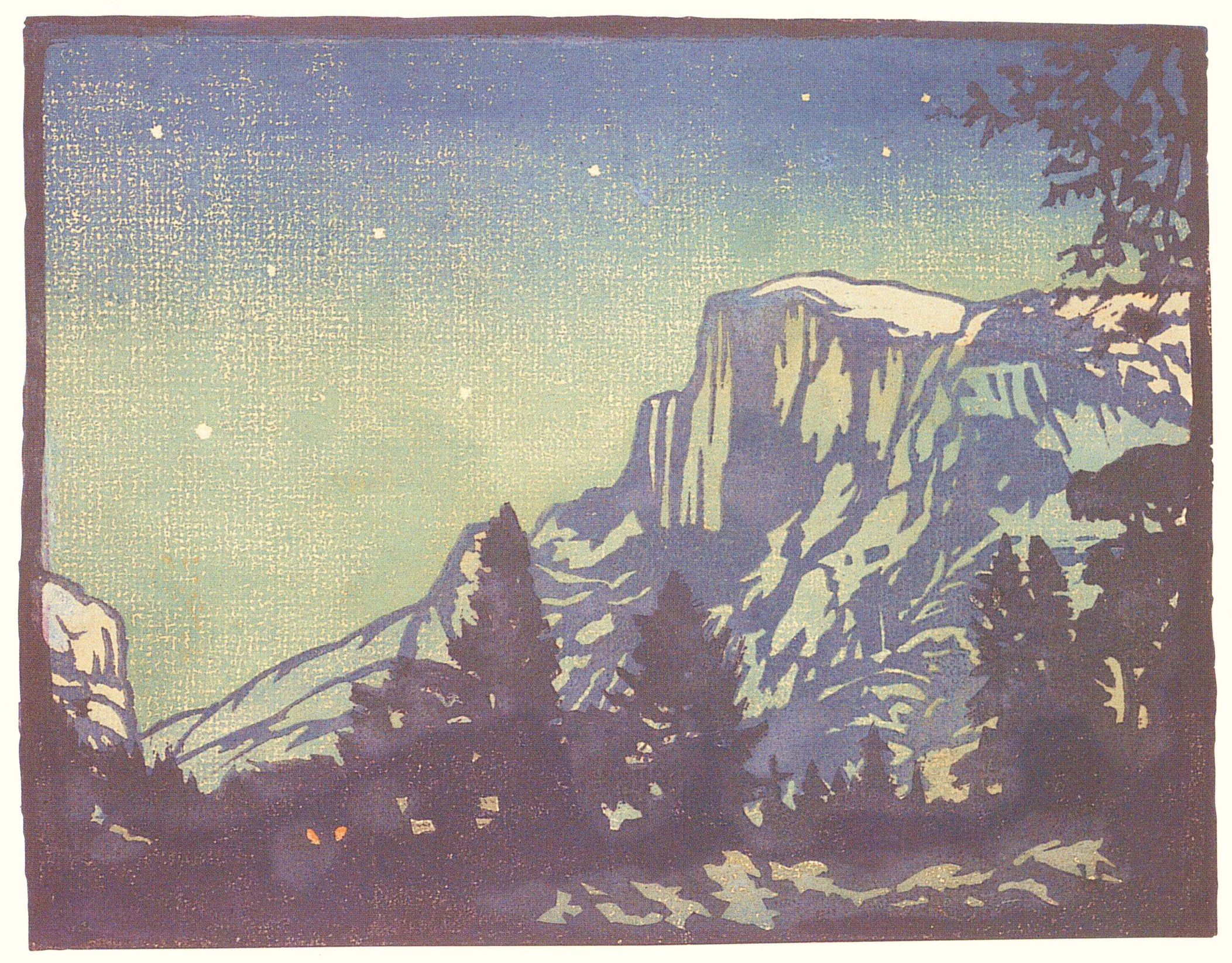 An image of a 1920 woodblock print Night - Yosemite by William Seltzer Rice